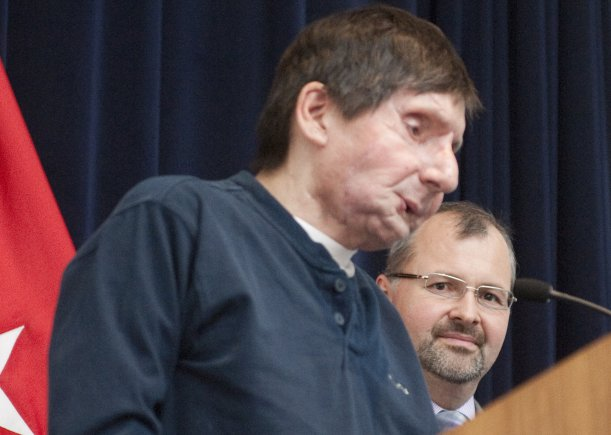 Natick plays role in advancing face transplants. Face transplant recipient Jim Maki speaks to an audience at Natick Soldier Systems Center as Dr. Bohdan Pomahac of Brigham and Women's Hospital in Boston listens. A contract issued by the Natick Contracting Division has helped make Pomahac's work...